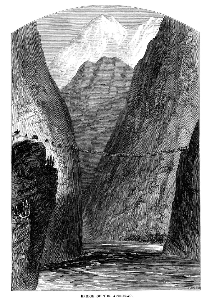 Bridge over the Apurimac illustration of Peru: Incidents and Explorations in the Land of the Incas